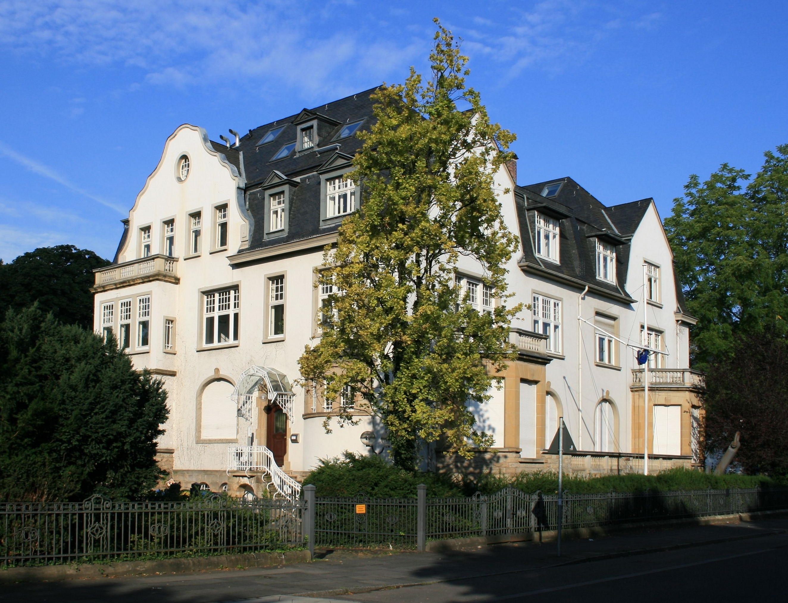 Germany, Bonn-Gronau: Building of the former representative of the State of Hamburg to the Federal Government, now used by a private company.